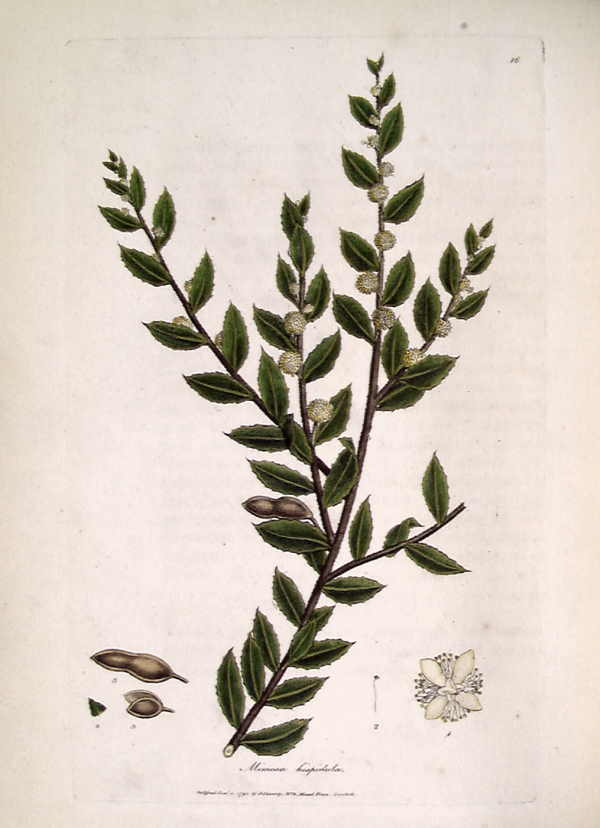 This is an image of a print of a hand coloured engraving by James Sowerby (1757-1822), based on drawing nominally by John White but probably by the convict artist Thomas Watling. It appeared as Tab. XVI in James Edward Smith's 1793 A Specimen of the Botany of New Holland. The plant depicted was then known as Mimosa hispidula, but is now known as Acacia hispidula. The accompanying text explains the figure thus: 1. Back of a magnified flower. 2. A stamen. 3,3, Two pods, copied from a drawing down at Port Jackson. 4. A stipula magnified.